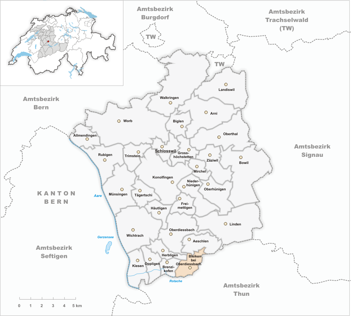 Municipality Bleiken bei Oberdiessbach